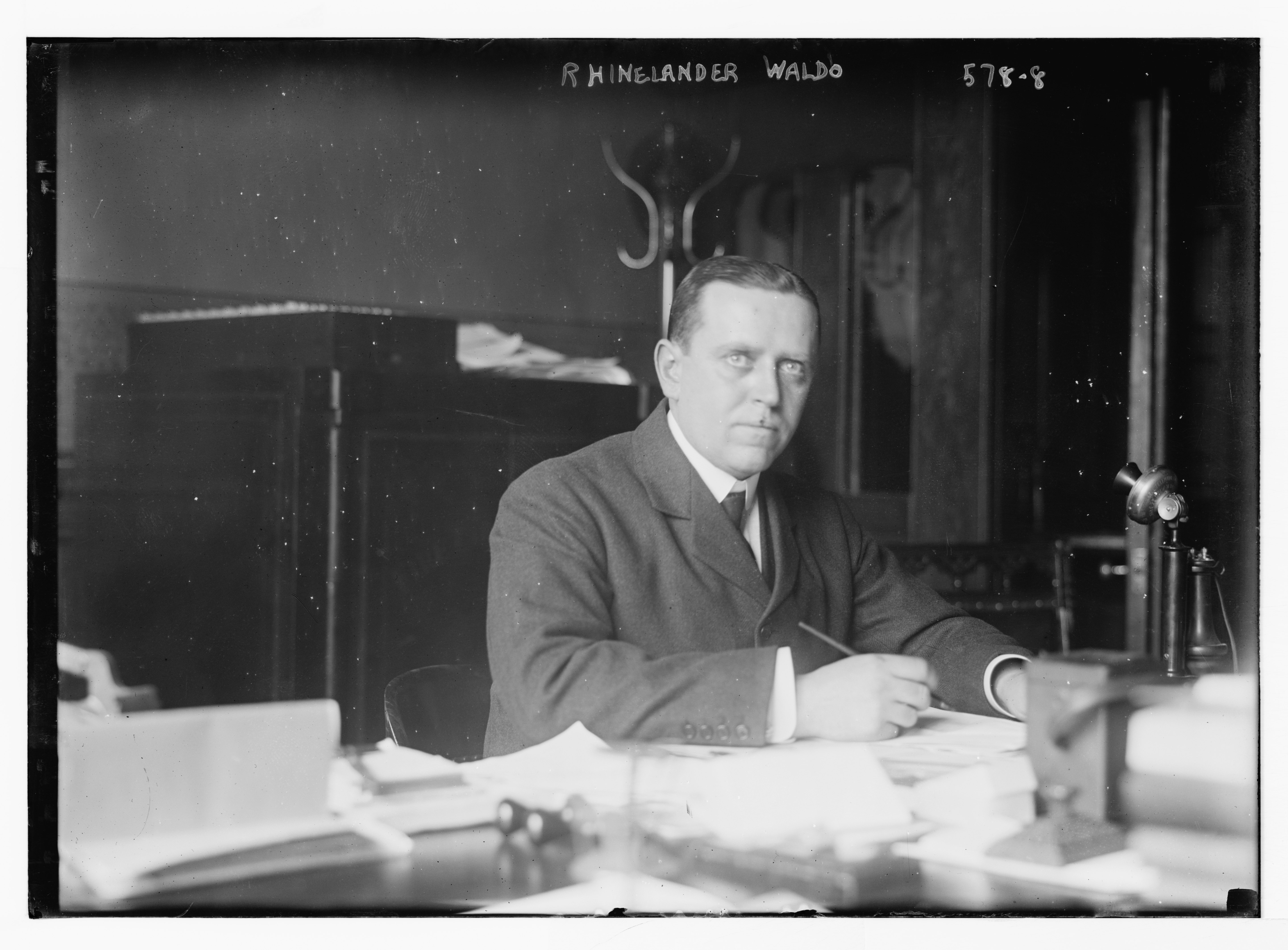 Title: Rhinelander Waldo Abstract/medium: 1 negative : glass ; 5 x 7 in. or smaller.